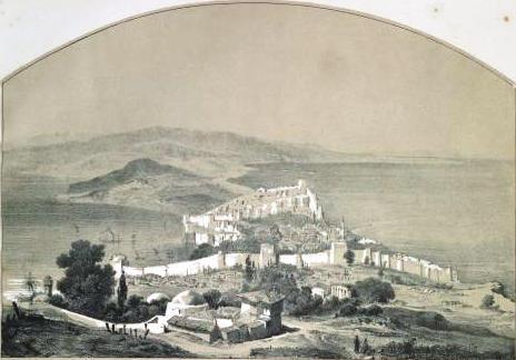 Sinop